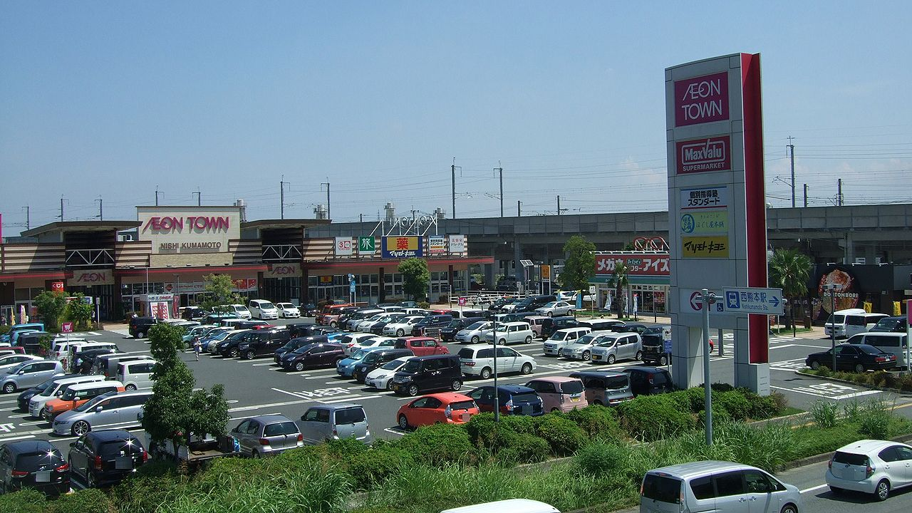 Aeon Town Nishikumamoto, Minami Ward, Kumamoto City, Kumamoto, Japan.